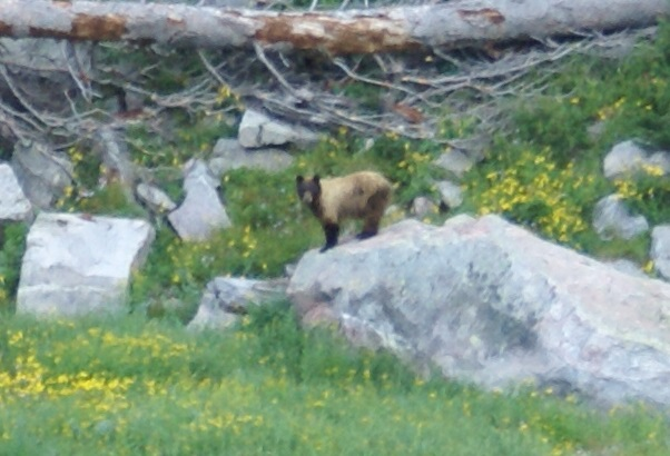 A small cinnamon bear, possibly a juvenile